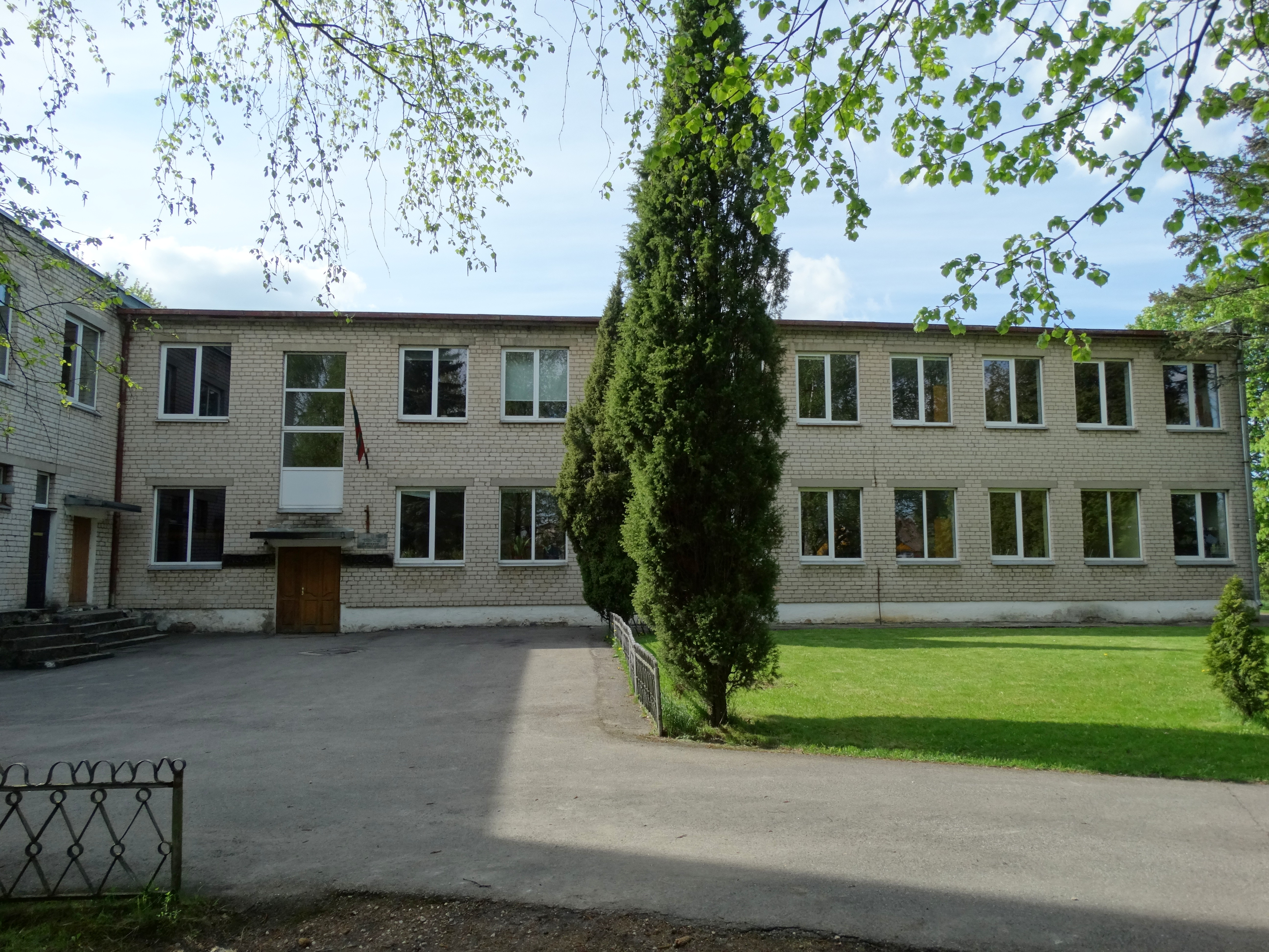 Basic school, Dūkštos, Lithuania